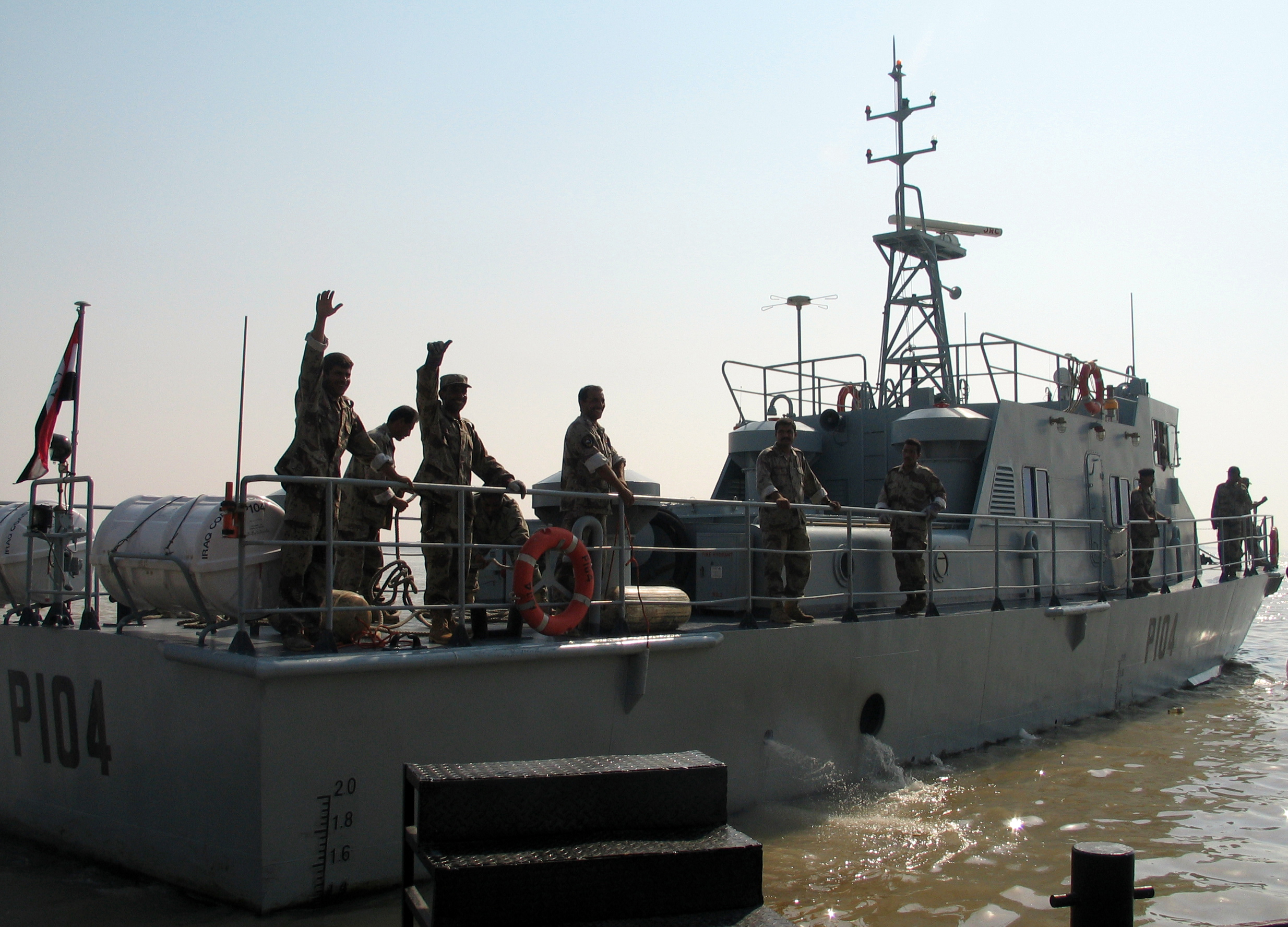 Umm Qasr, Iraq (Sept. 30, 2004) - Iraqi sailors assigned to the Iraqi Coastal Defense Force (ICDF) celebrate as they get underway for the first time. The ICDF became operational Oct. 1, 2004, and is commanded by U.S. Marine Corps Brig. Gen. Joseph V. Medina, Commander, Task Force Five Eight (CTF-58)/Commander, Expeditionary Strike Group Three (ESG-3). The ICDF, along with coalition forces, will contribute to security and stability operations in Iraqi territorial waters and will include the protection of Al Basrah and Khawr Al Amaya oil terminals. U.S. Navy photo by Lt. Sonja L. Stone (RELEASED)